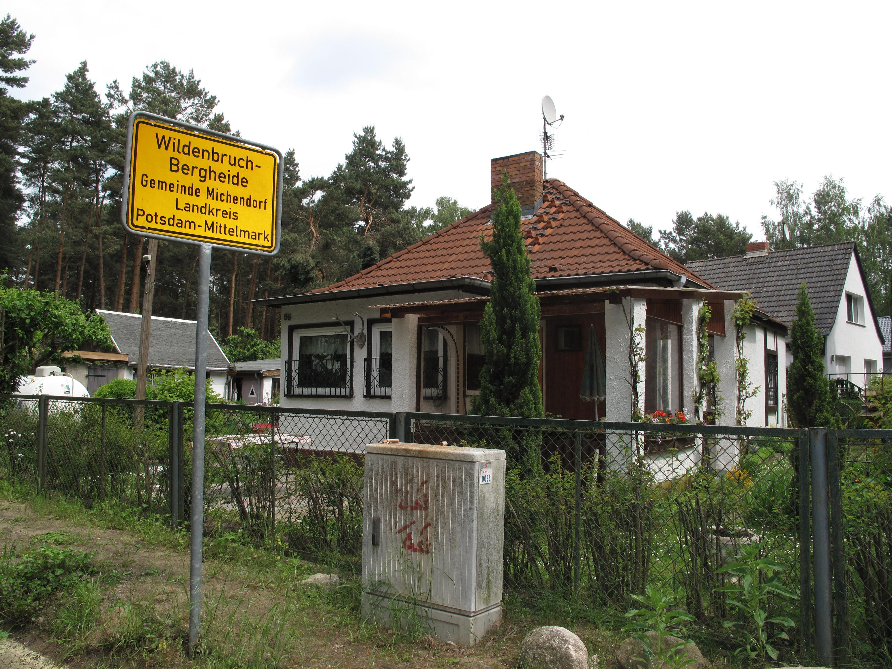 Settlement Bergheide, founded around 1920, in Wildenbruch. Wildenbruch is a part of Michendorf in the district Potsdam-Mittelmark, state Brandenburg, Germany.